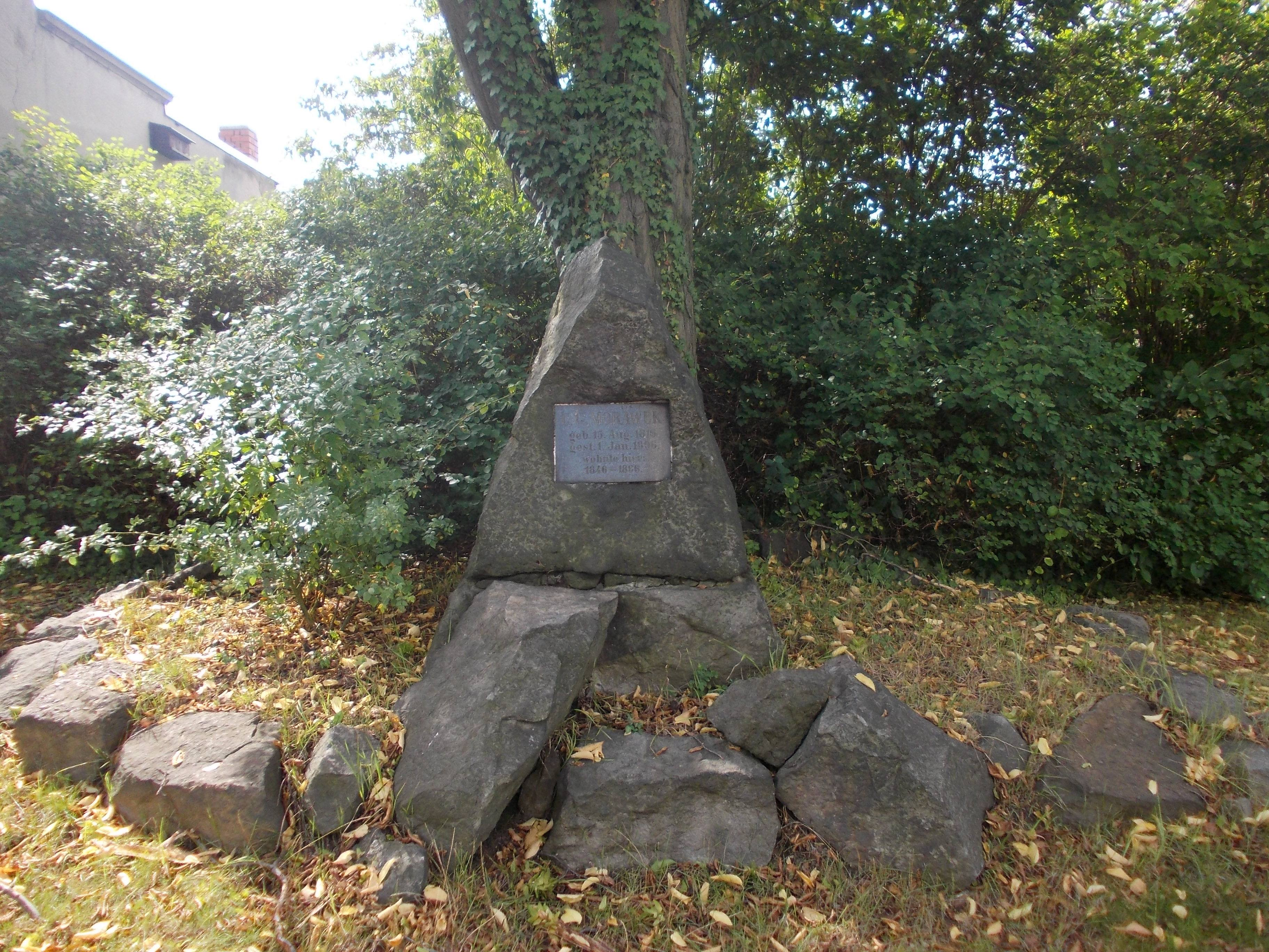 Memorial stone at the place where the historian Carl Gottlob Morawek lived, in Zittau (Görlitz district, Saxony)